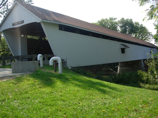 Potter's Bridge, a historical covered bridge in Noblesville, Indiana.